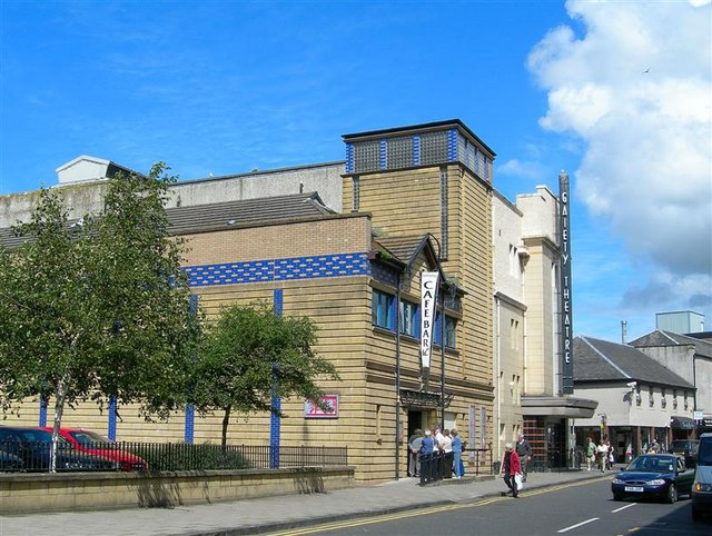 The Gaiety Theatre This small provincial theatre in Ayr's Carrick Street was built in 1902. It was run by the Popplewell family from 1925 until 1973, when it became a civic property. It is currently run by South Ayrshire Council. For more information